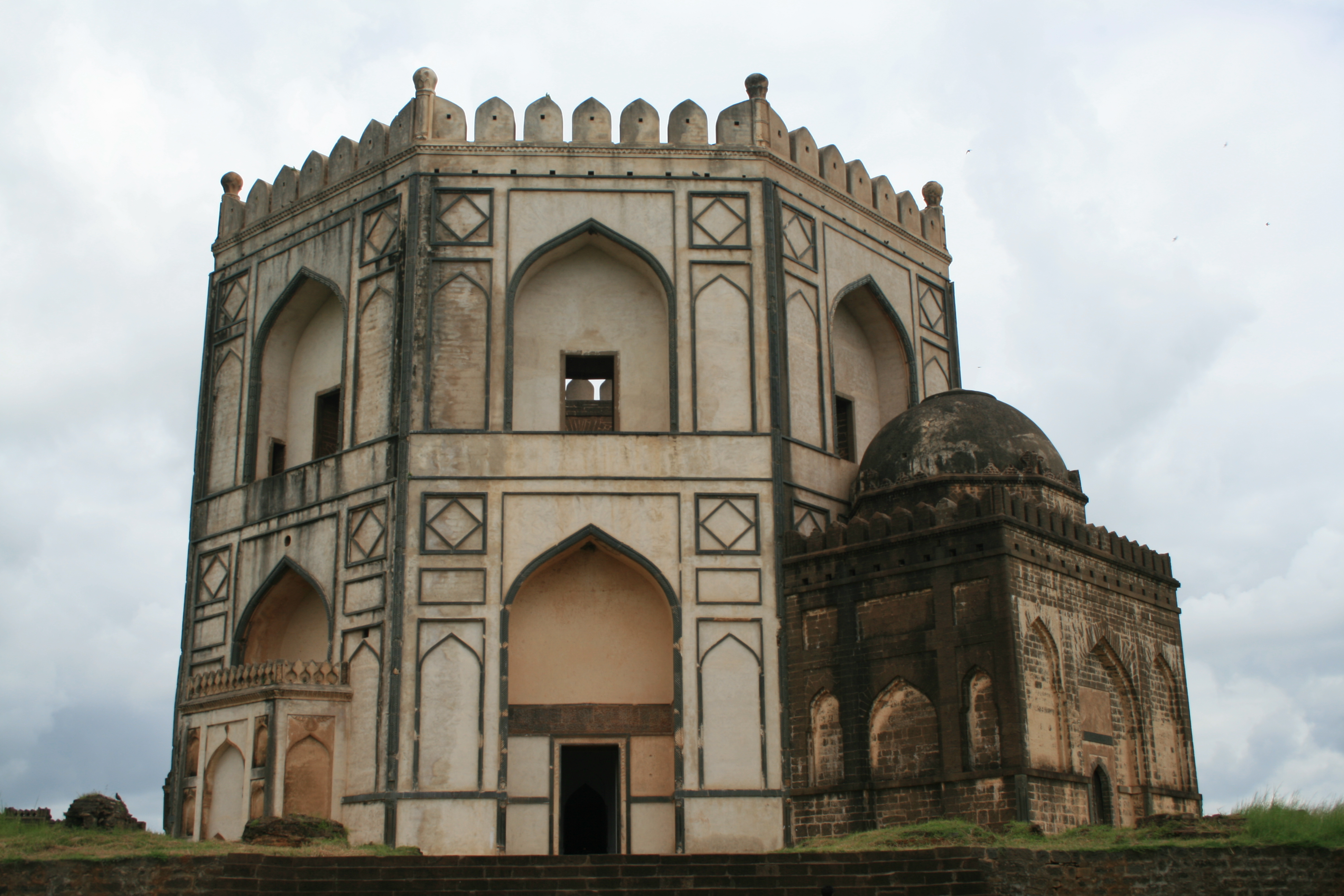 Barid Shahi Tombs